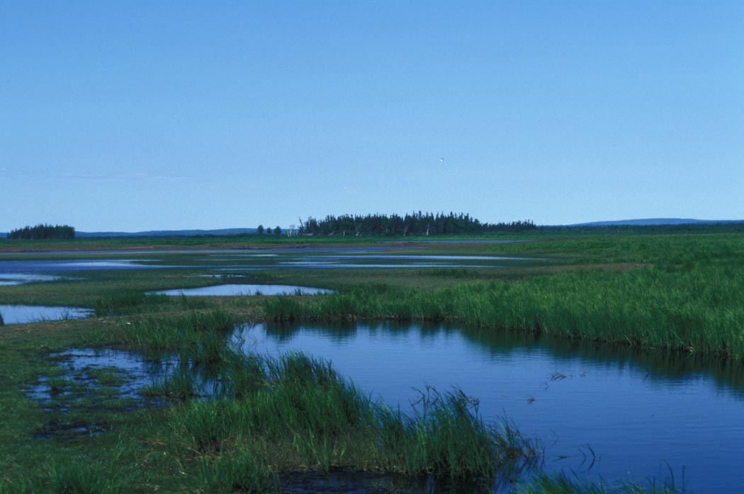 Summertime in the Innoko Wilderness, Alaska, USA.